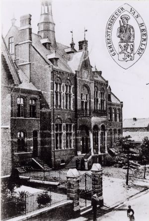 Oude Raadhuis in Heerlen The Netherlands. Build 1878, demolished 1941